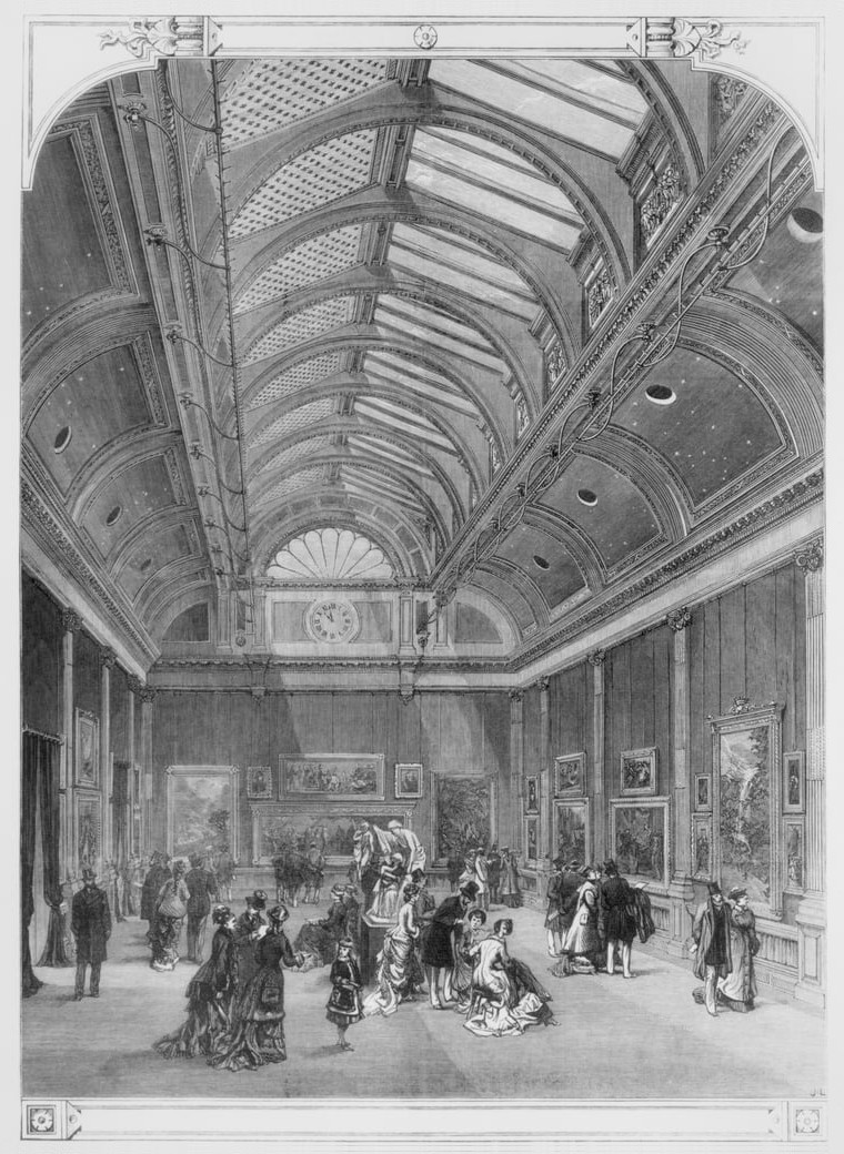 Scan of an engraving of the Grosvenor Gallery from The Illustrated London News